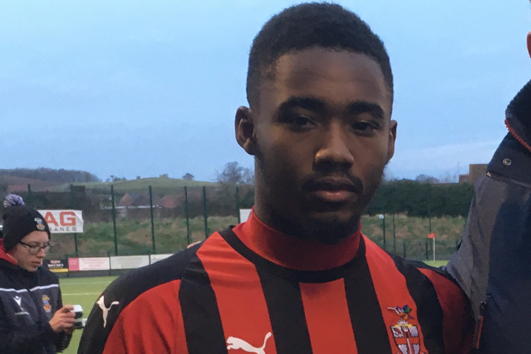 Photo taken by myself of Romario Martin following the Redditch United Vs. Tamworth game on February 8 2020 at Trico Stadium.